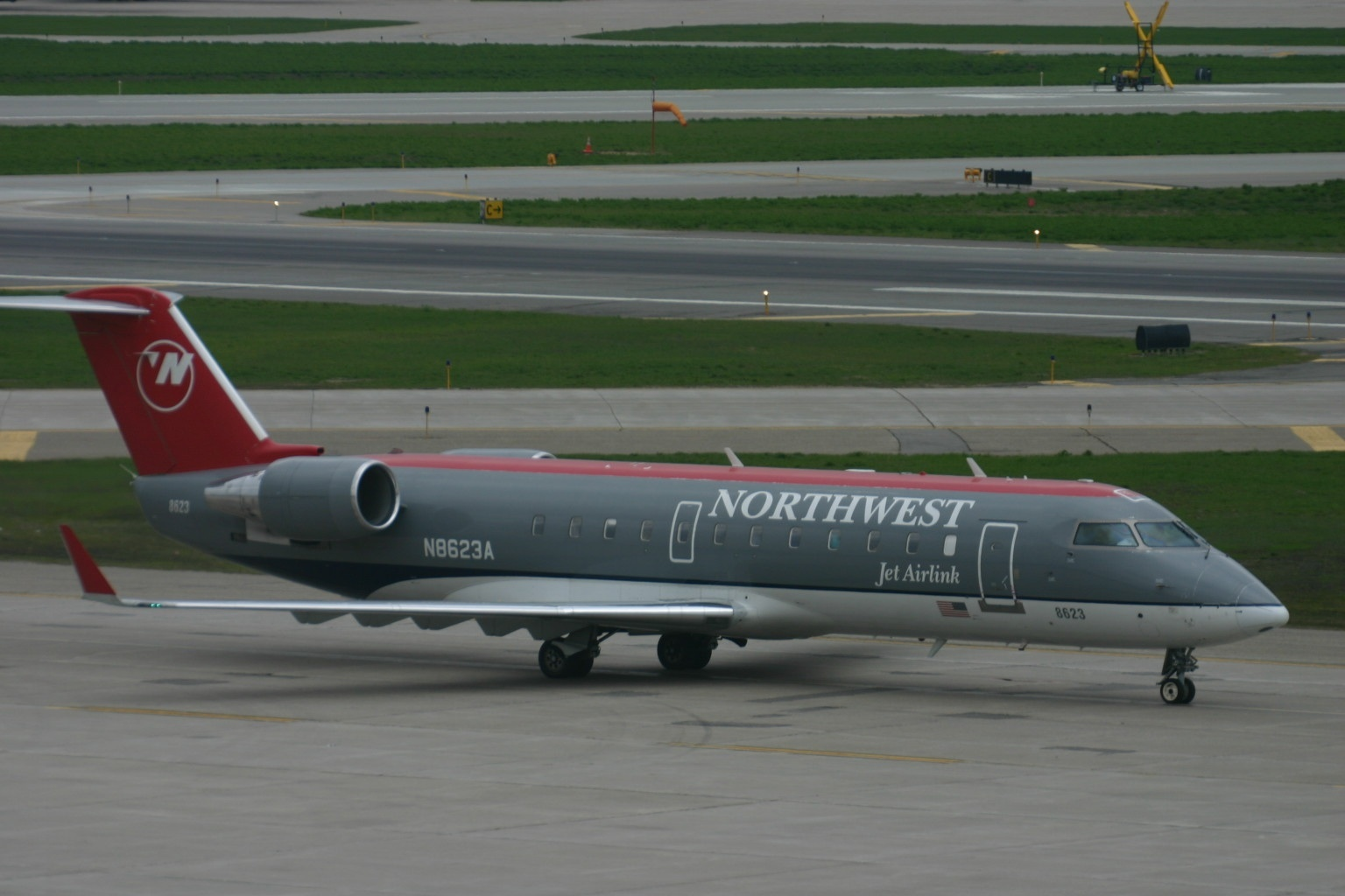 At Minneapolis-Saint Paul